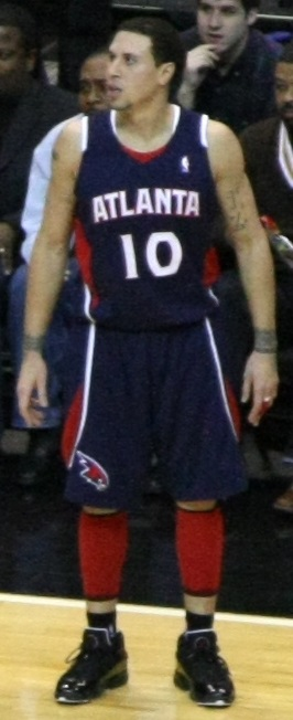 Bibby with the Hawks in 2008